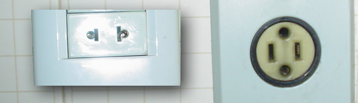 Brazilian socket types. Brazilian socket types - both have the same connections, but the left one is more compact, and is mostly used in smaller outlets, like those that come together with light switches. Photo by: Henrique :any more information on the socket on the right? it sort of looks like it was designed to take both europlugs and unearthed american plugs but it also looks like it might fit an earthed american plug (which woulld be very dangerous if that was a live contact. Plugwash 13:29, 25 Apr 2005 (UTC) Indeed those sockets will take both schucko plugs and USA ones. No earth of course, but then the supply probably has not got one either. Appliances with metal cases, like cookers, washing machines etc of that era were supplied as class 0A, so 2 core lead and a lug for a separate earth wire. The newer sockets are 3 pin, but 220V and 110V are still intermixable.